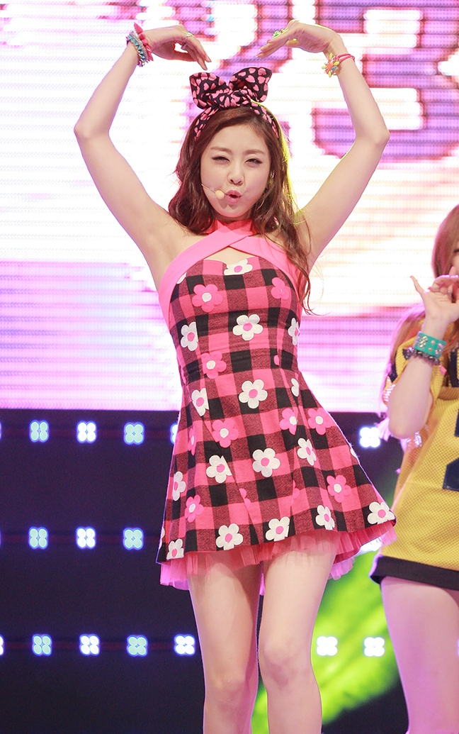 Rise Kwon in October 13, 2013.